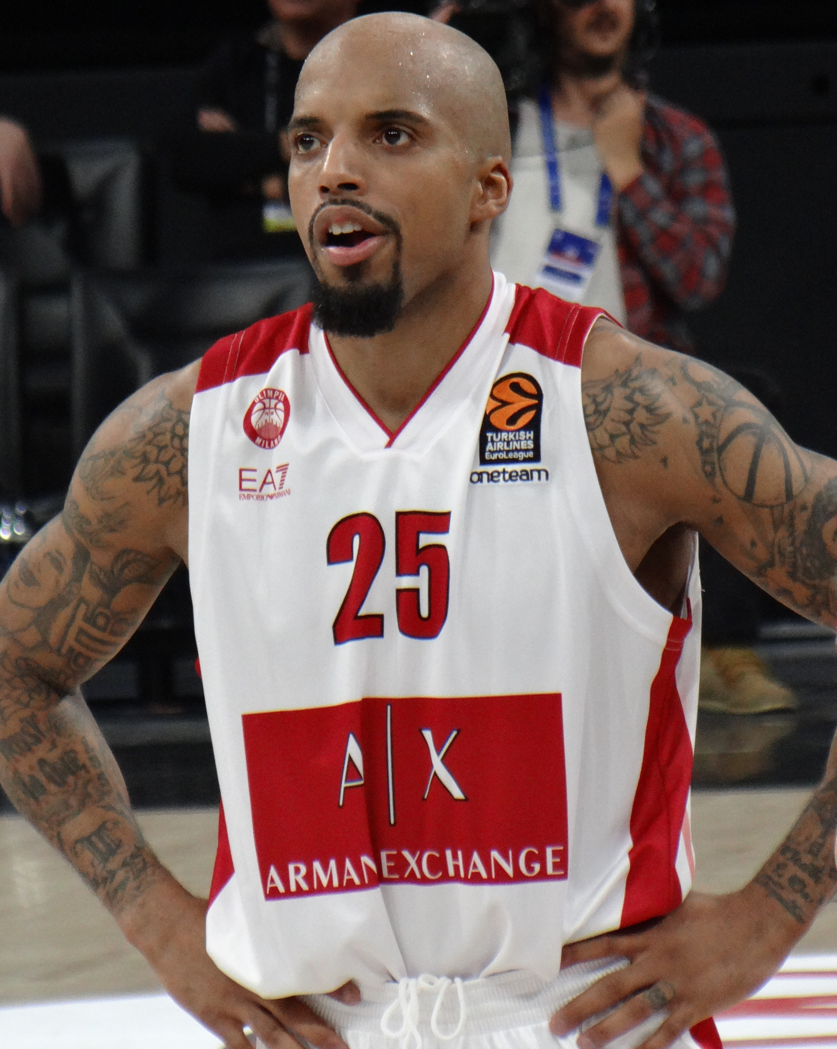 Jordan Theodore 25 AX Armani Exchange Olimpia Milan 20171130